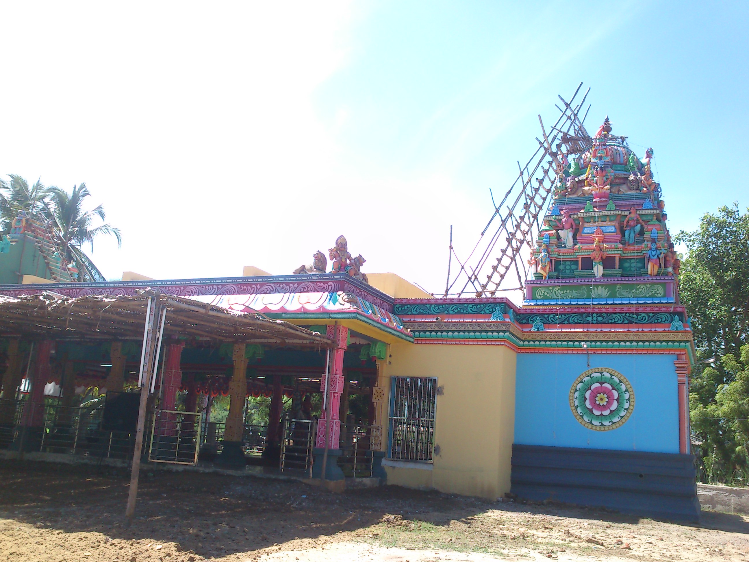 TEMPLE